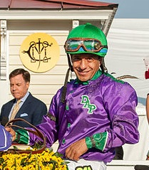 Victor Espinoza at 139th Preakness Stakes. by Jay Baker at Baltimore, MD.